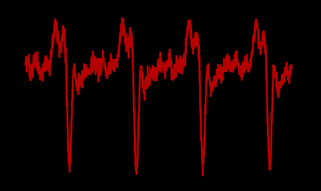 Colorized trace of pulses from the NIST/JILA "dark pulse" laser, indicating the light output nearly shuts down about every 2.5 nanoseconds. Credit: NIST Disclaimer: Any mention of commercial products within NIST web pages is for information only; it does not imply recommendation or endorsement by NIST. Use of NIST Information: These World Wide Web pages are provided as a public service by the National Institute of Standards and Technology (NIST). With the exception of material marked as copyrighted, information presented on these pages is considered public information and may be distributed or copied. Use of appropriate byline/photo/image credits is requested.